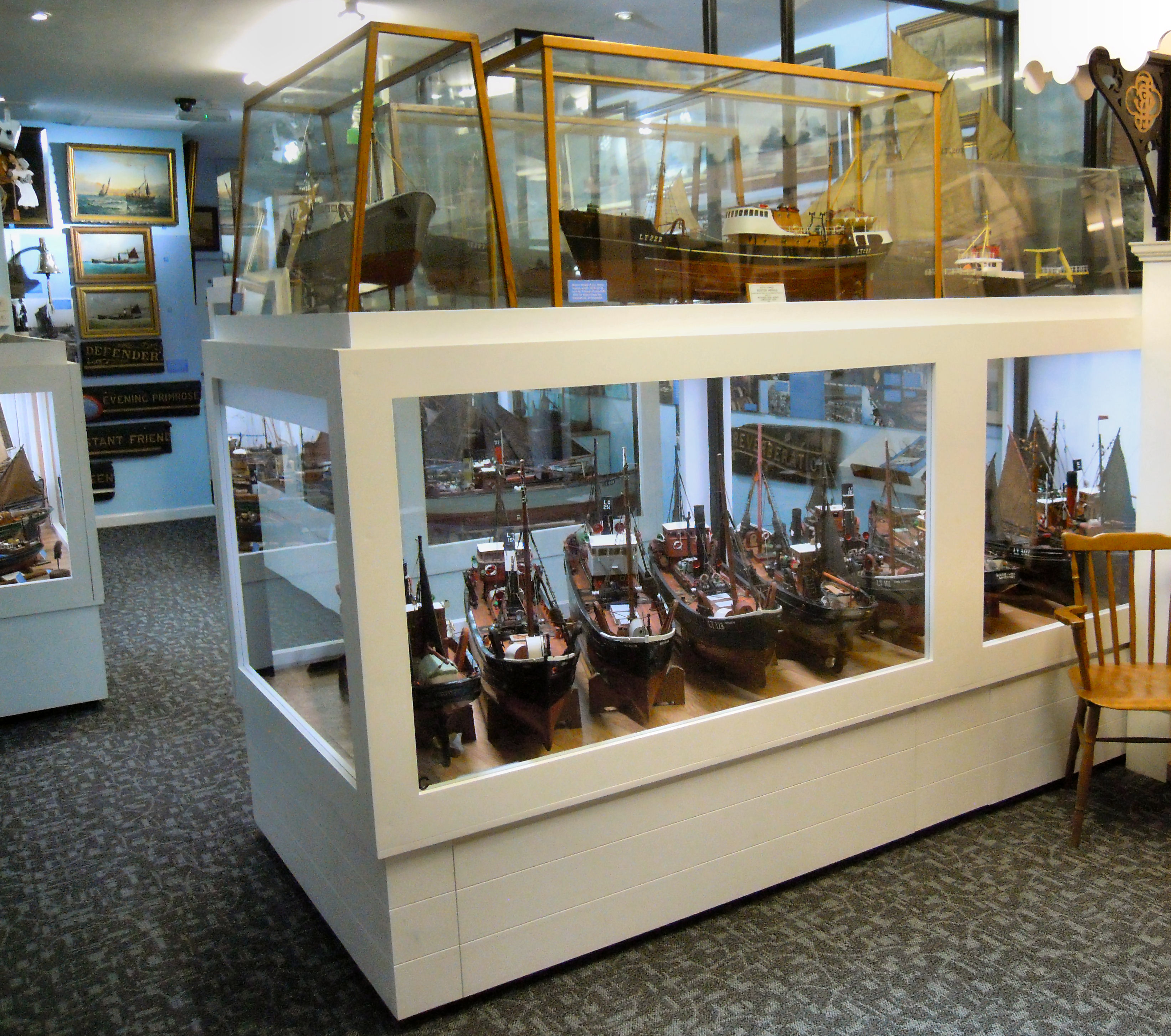 Large model ships displayed at Lowestoft Maritime Museum